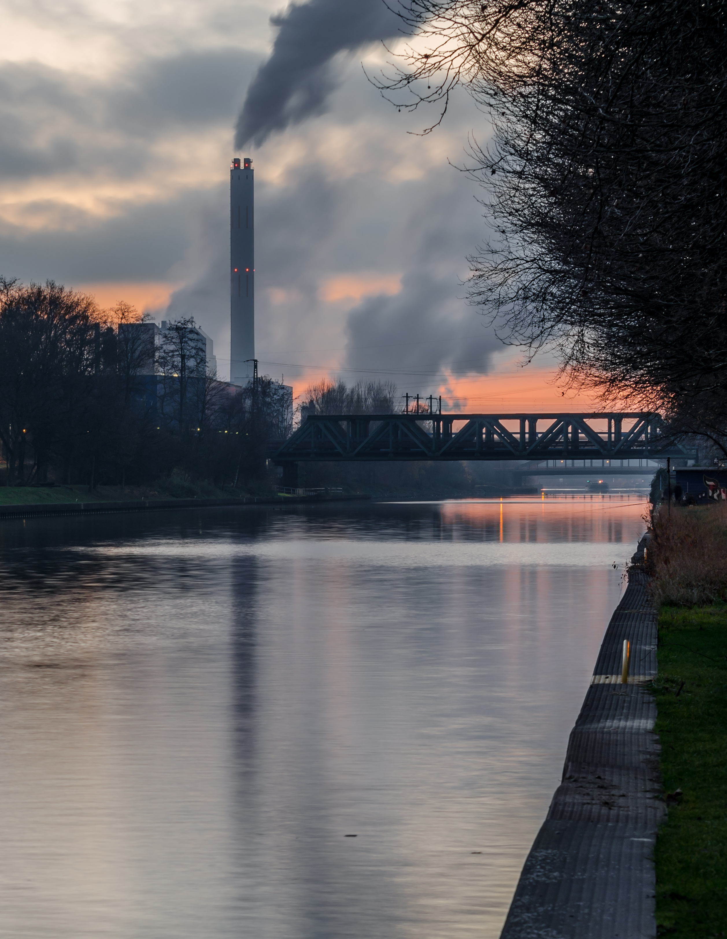 Evening mood at Rhine-Herne-Canal